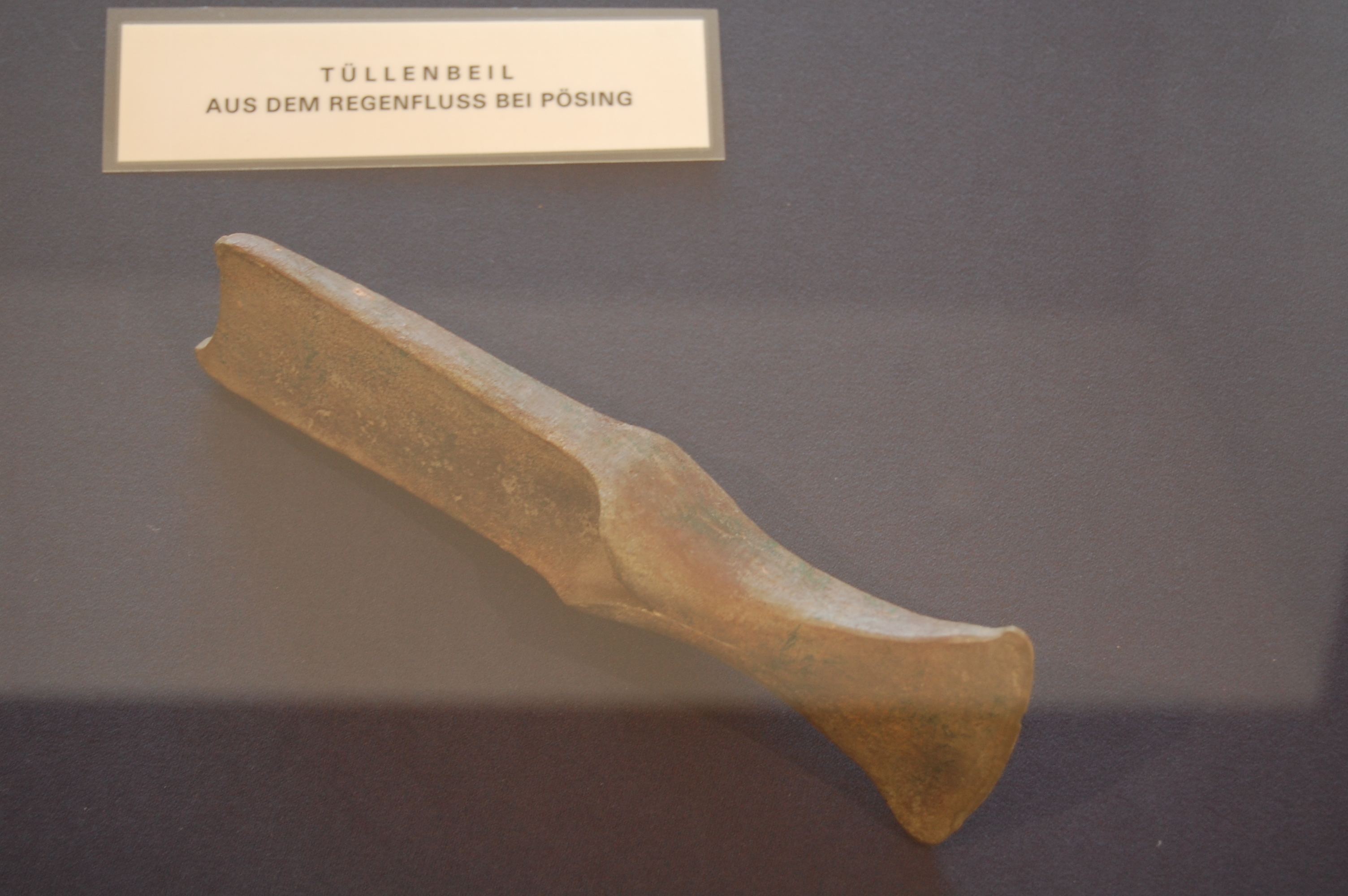 socketed axe, found in the river Regen near Poesing, Bronze Age